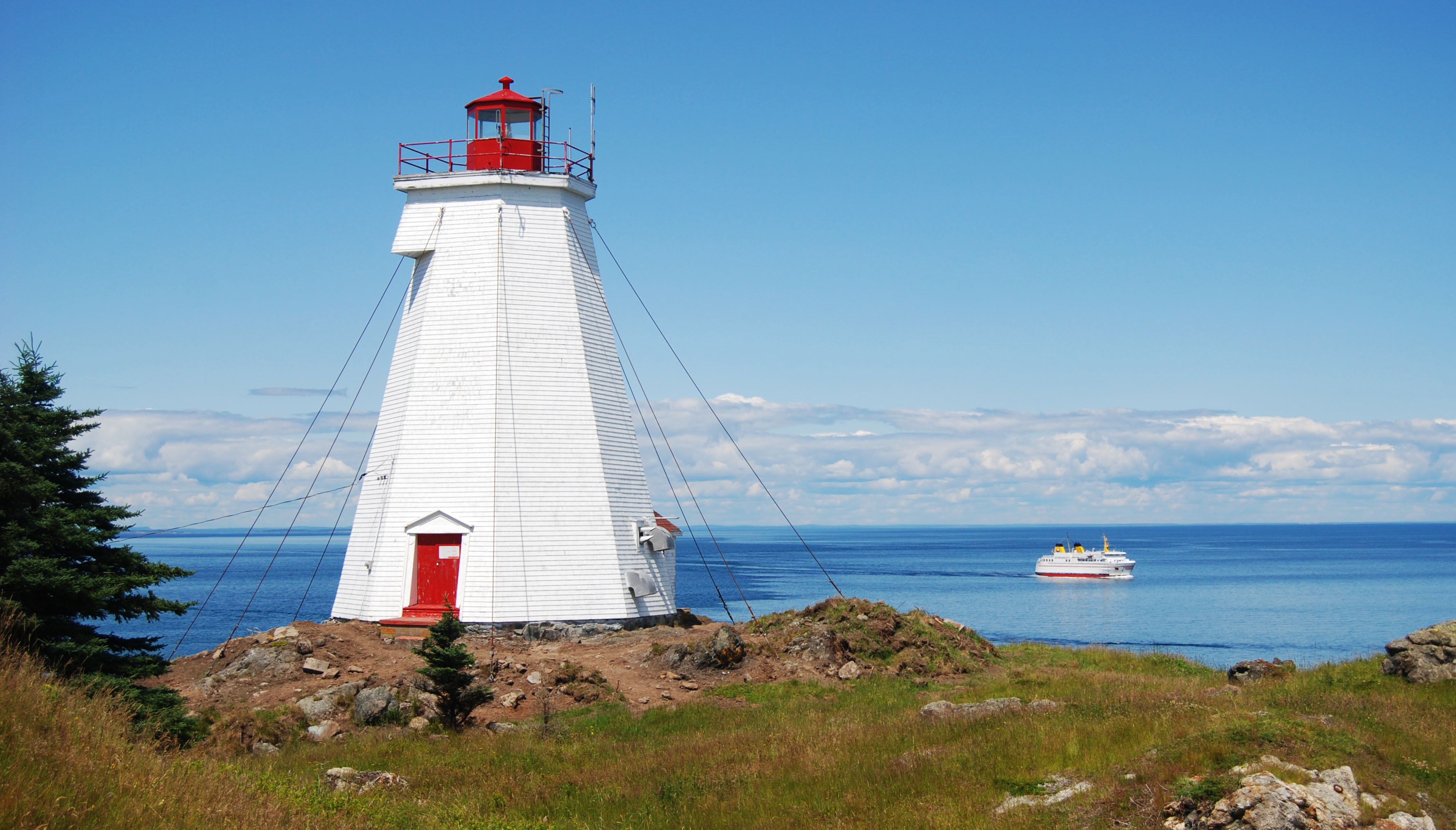 Swallowtail Lighthouse on Grand Manan Island (New Brunswick), Canada.